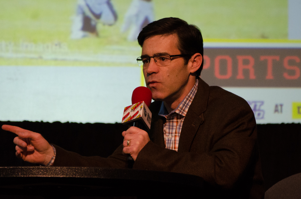 Mike Keith, radio play-by-play announcer for the Tennessee Titans